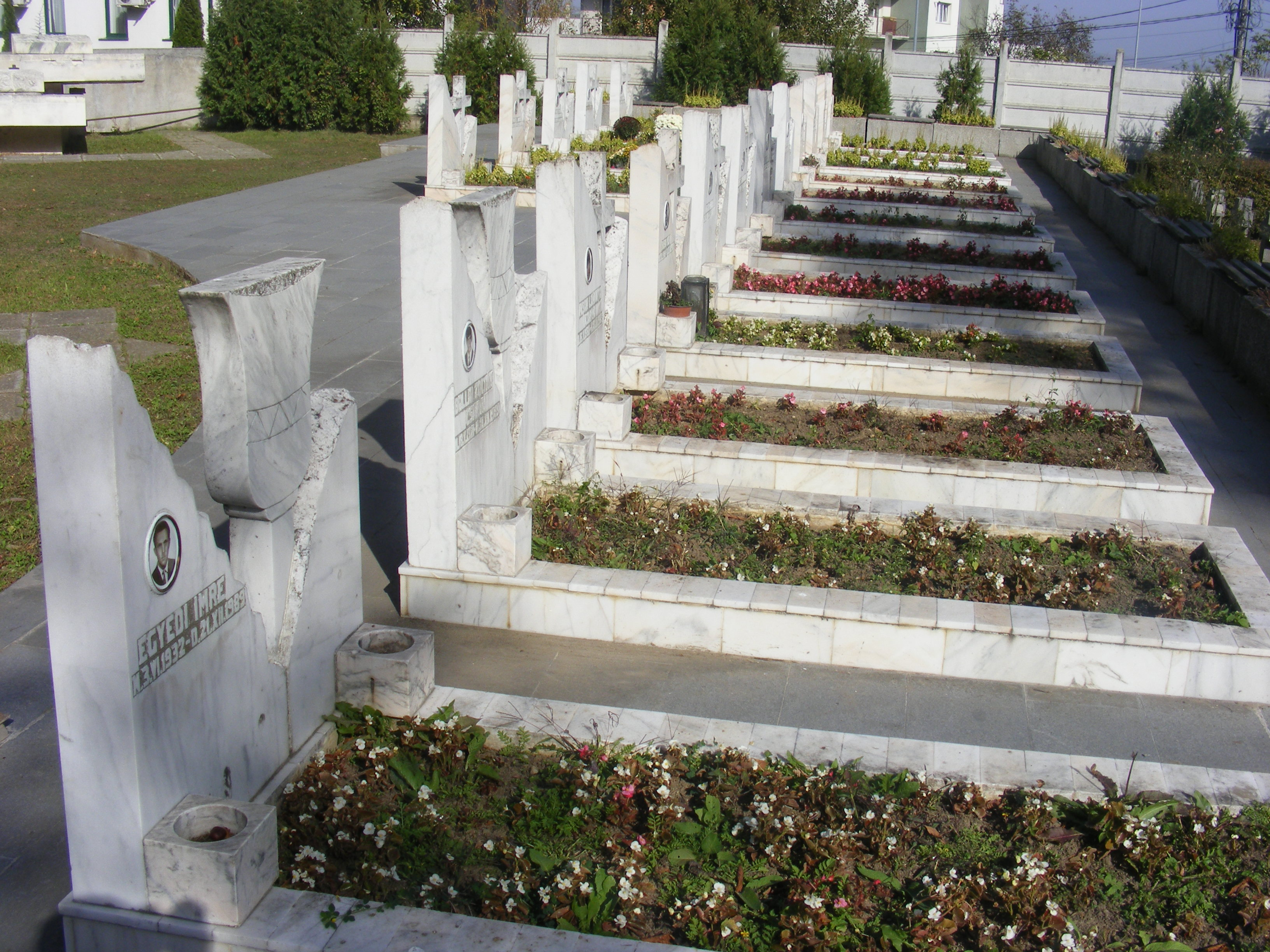 Thombs of the heroes of the romanian revolution in 1989 at Cluj.